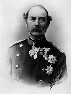 Photo of King Christian IX of Denmark (King 1863-1906).